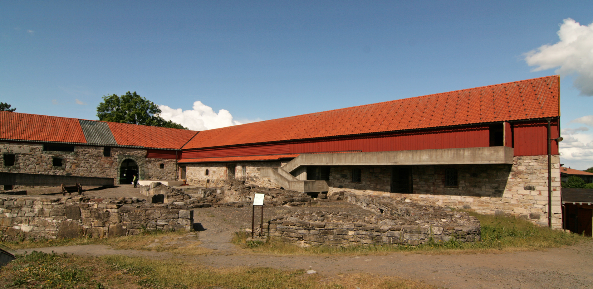 Ruins of medieval Hamar episcopal castle.